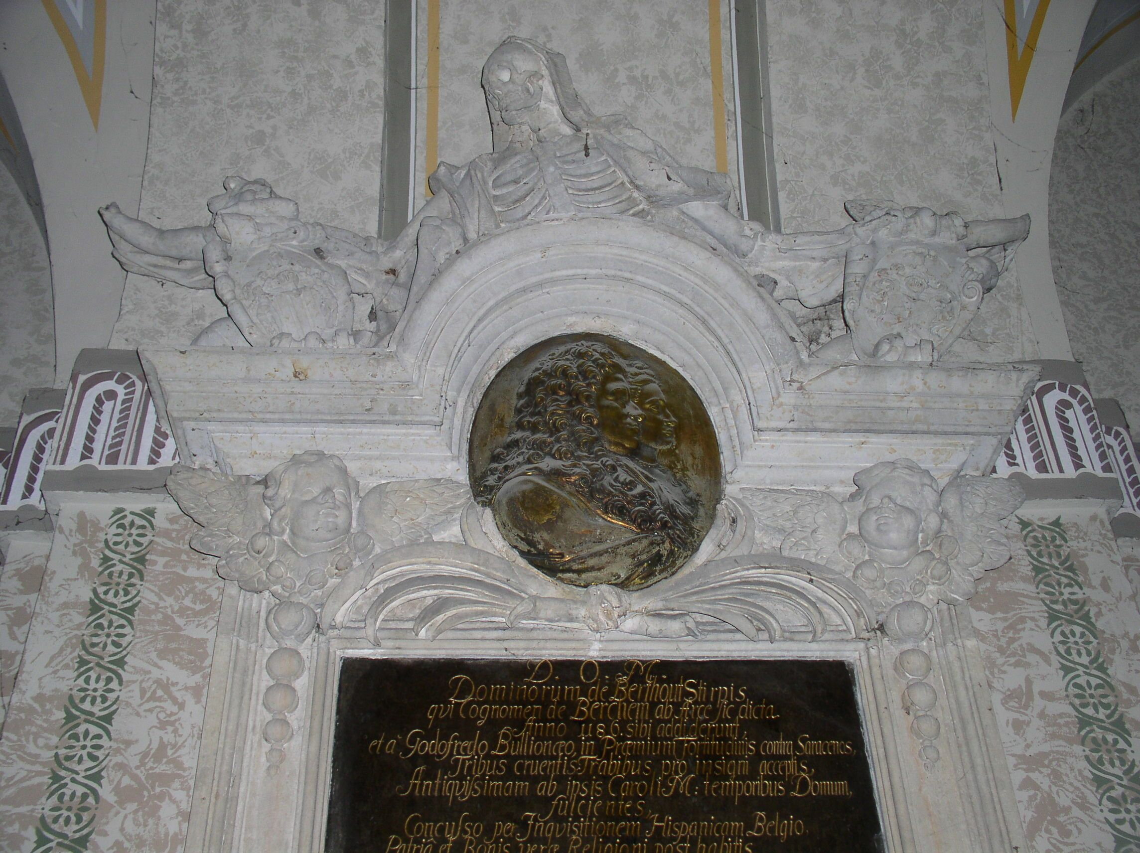 Epitaph in the Parochialkirche in Berlin-Mitte